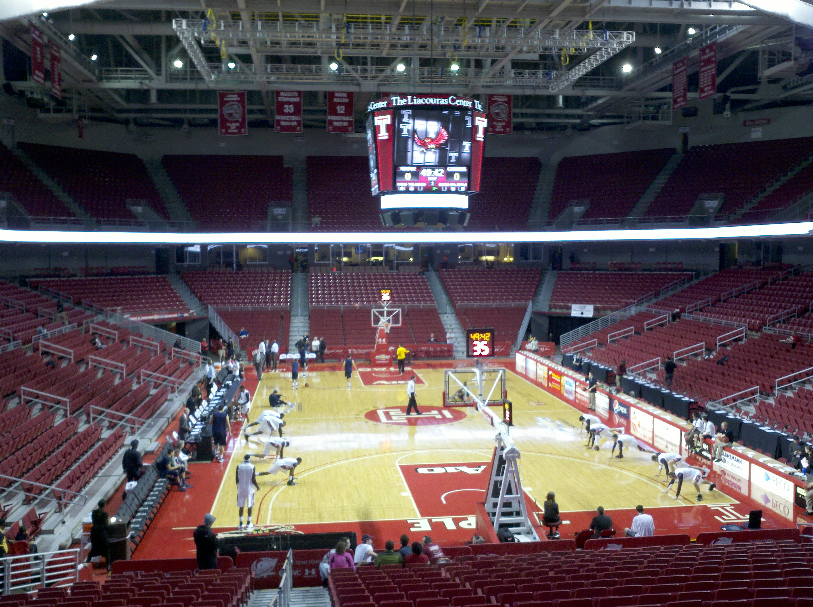 This photo is of the Liacouras Center from the top of the Student section before a Temple Owls game against Canisius on December 19th, 2012.